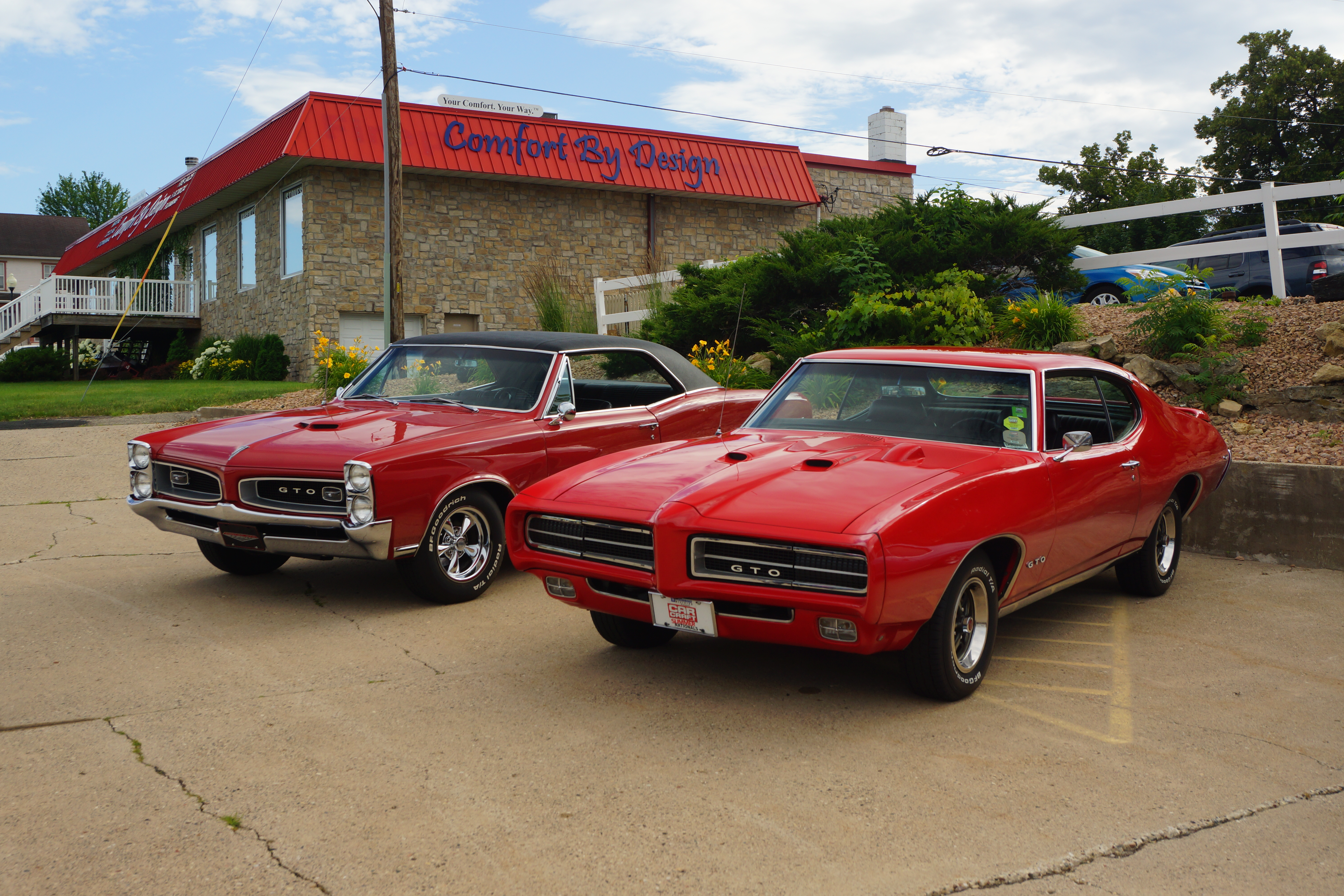 HISTORIC DOWNTOWN HASTINGS CRUISE-IN & CLASSIC CAR SHOW Hastings, Minnesota July 2017 Click here for previous Hastings Cruise Night pictures.. Click here for more car pictures at my Flickr site. Or here for my Car Crazy Tumblr site. Or on Twitter @DVS1mn.